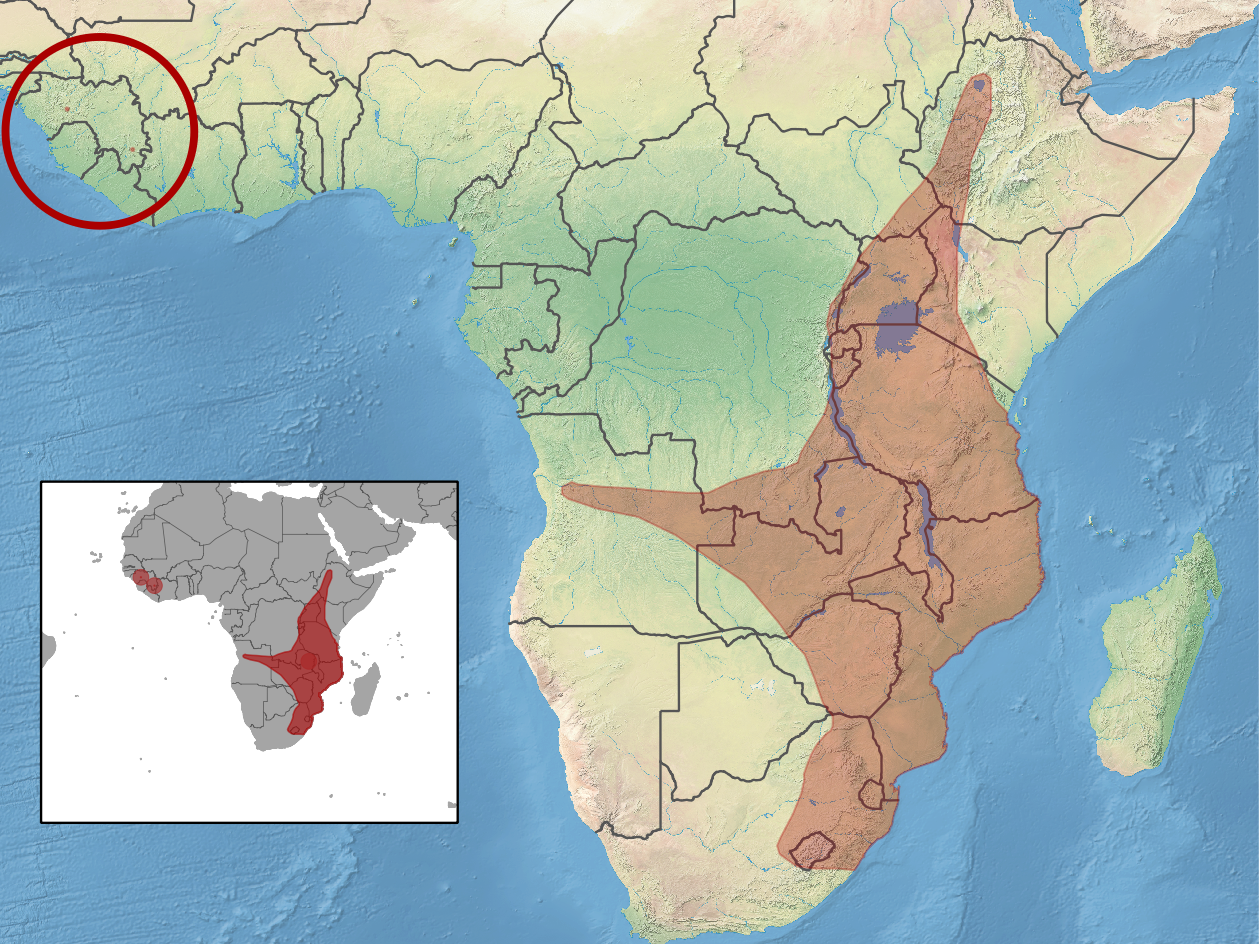 geographic distribution of Myotis welwitschii